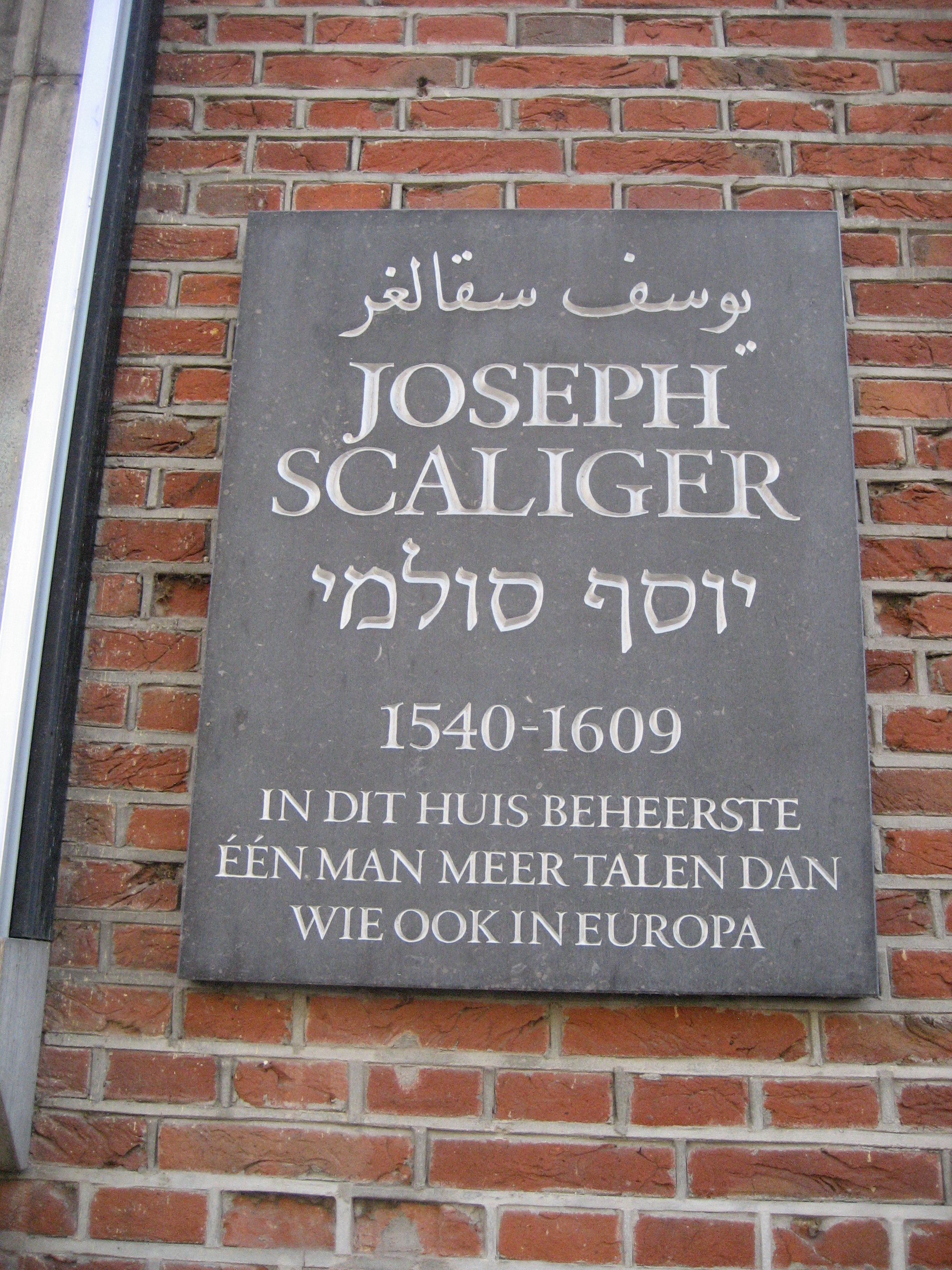 Plaque in Leiden (the Netherlands). Plaque reads: "Joseph Scaliger. 1540-1609. In dit huis beheerste een man meer talen dan wie ook in Europa." Breestraat 113, Leiden (the Netherlands)